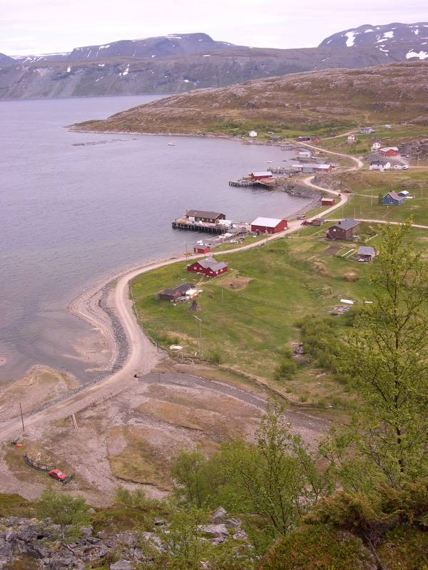 A view from the mountain side on Nervei, Finnmark, Norway.